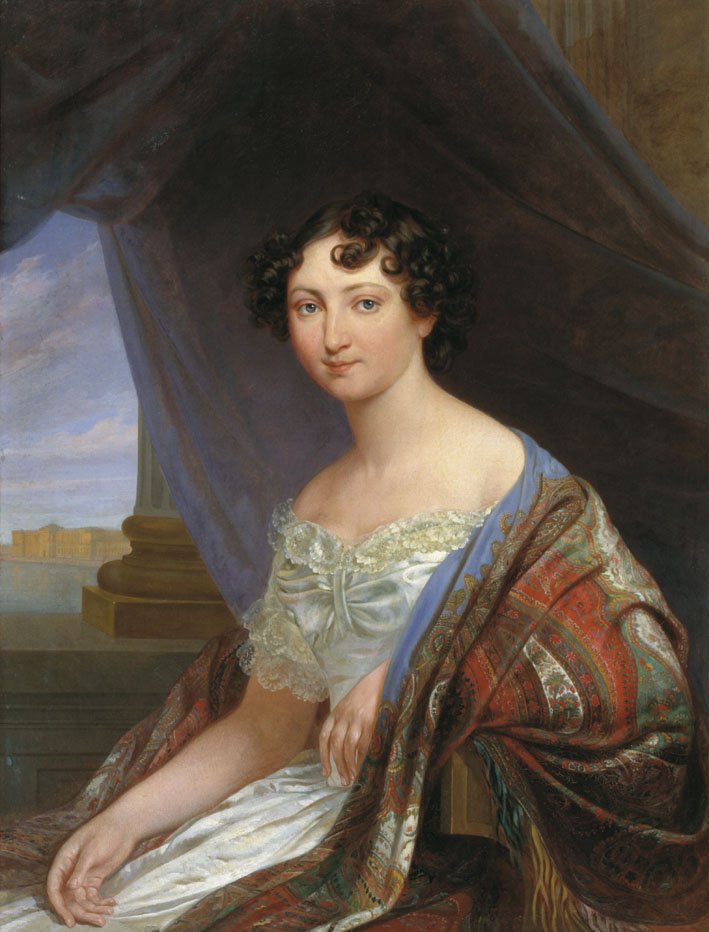 Grand Duchess Anna Pavlovna of Russia